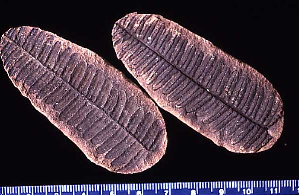 Partial frond of Pecopteris villosa from the Mazon Creek Formation